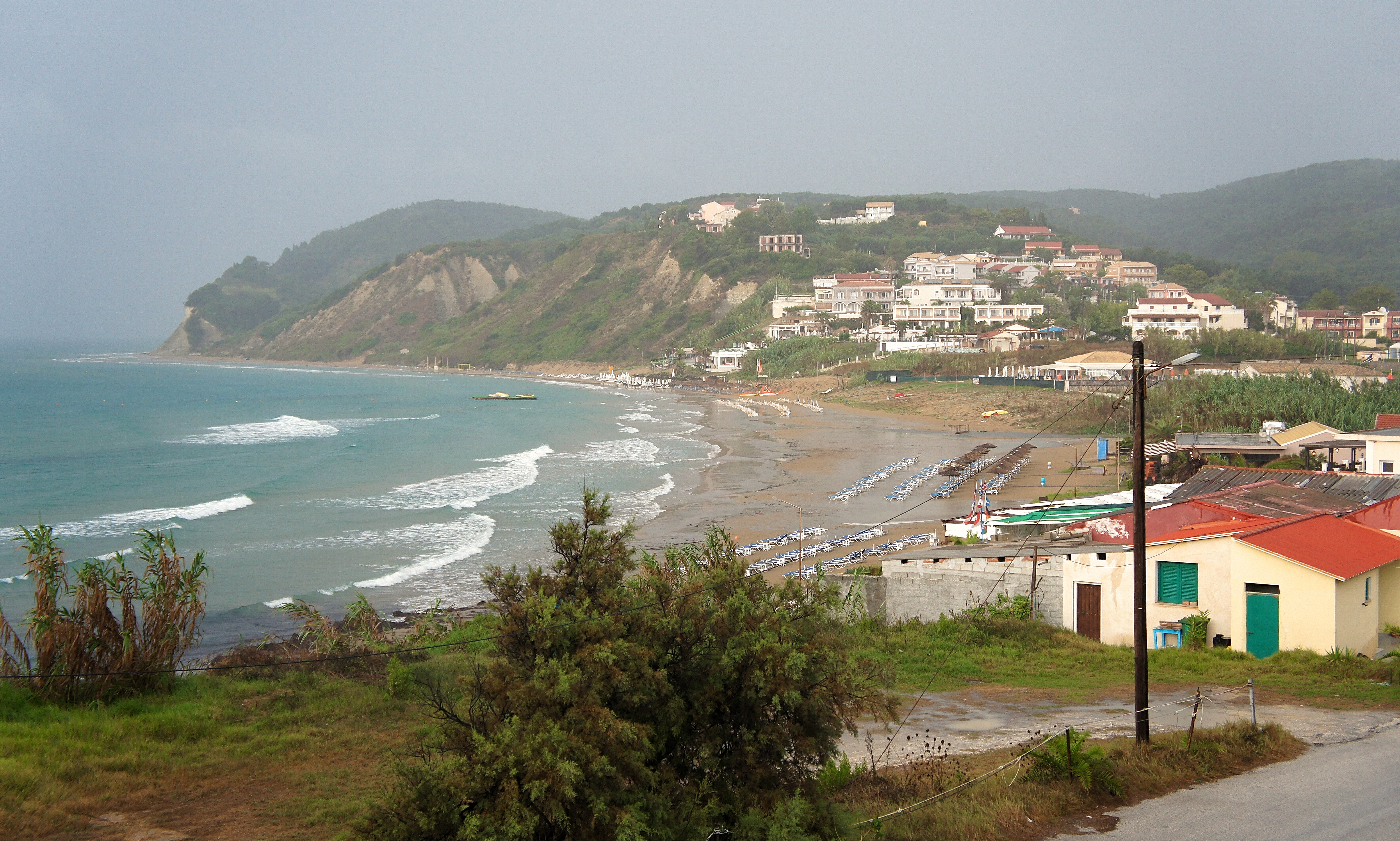 Agios Stefanos on the northwest of the Corfu island (Ionian Islands, Greece).